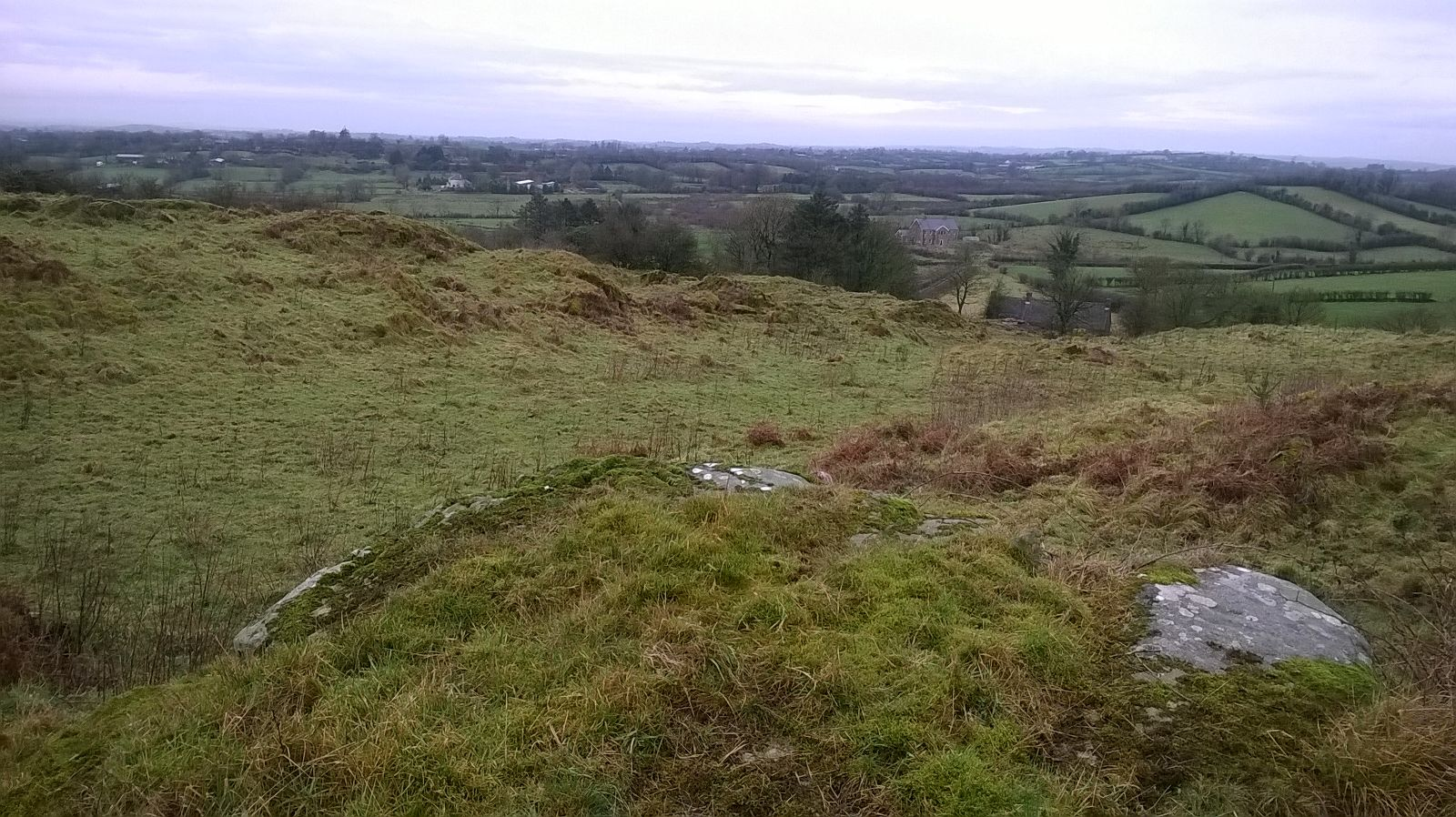 Photo taken from directly above Mass Rock looking North West